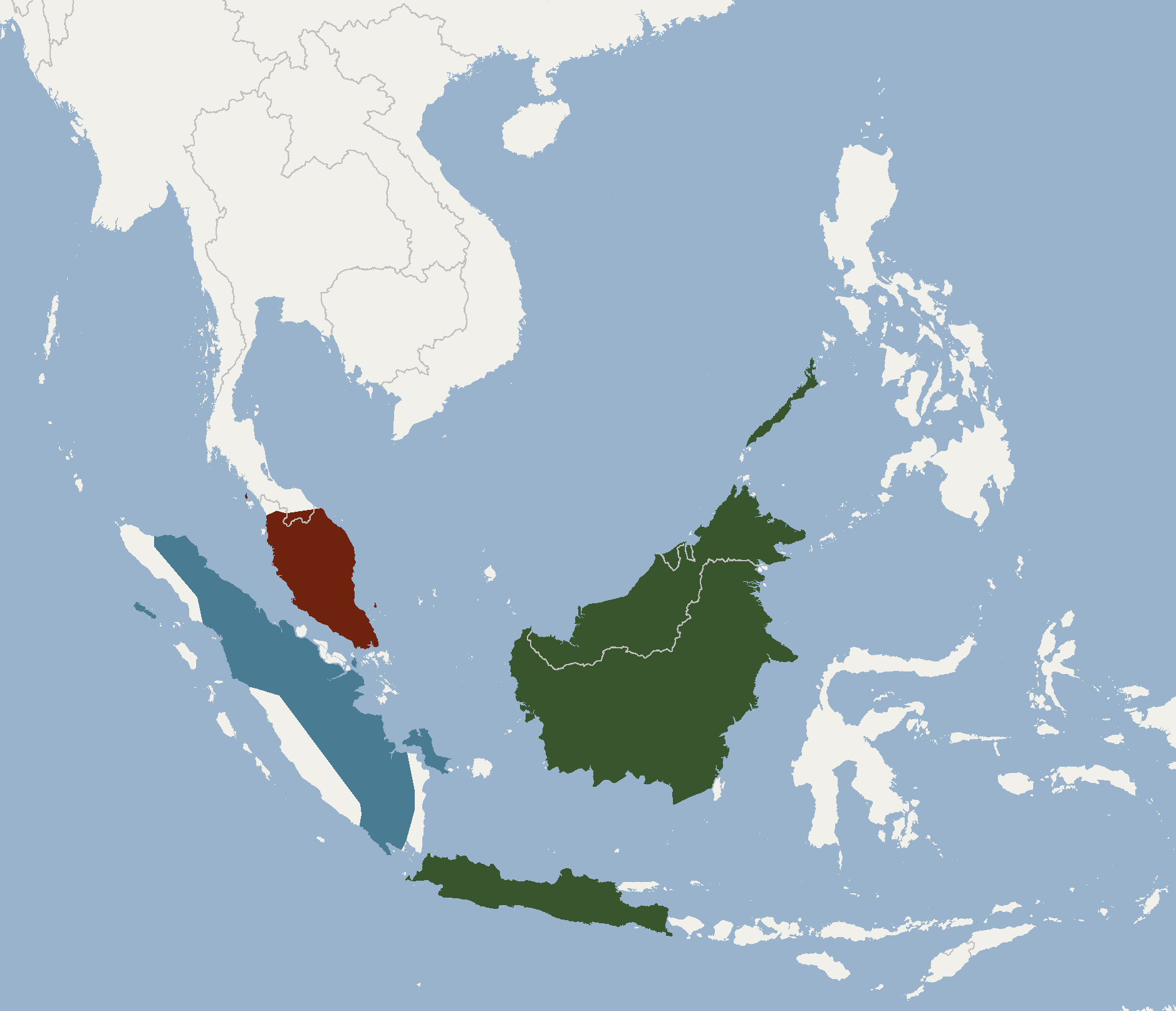 Geographical distribution of Cheiromeles torquatus according to IUCNRedlist